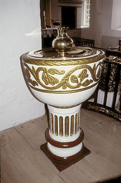 Dreslette Church in Assens Kommune from apr. 1100